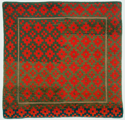 Tibetan rug with Gau (amulet) design, from around 1900